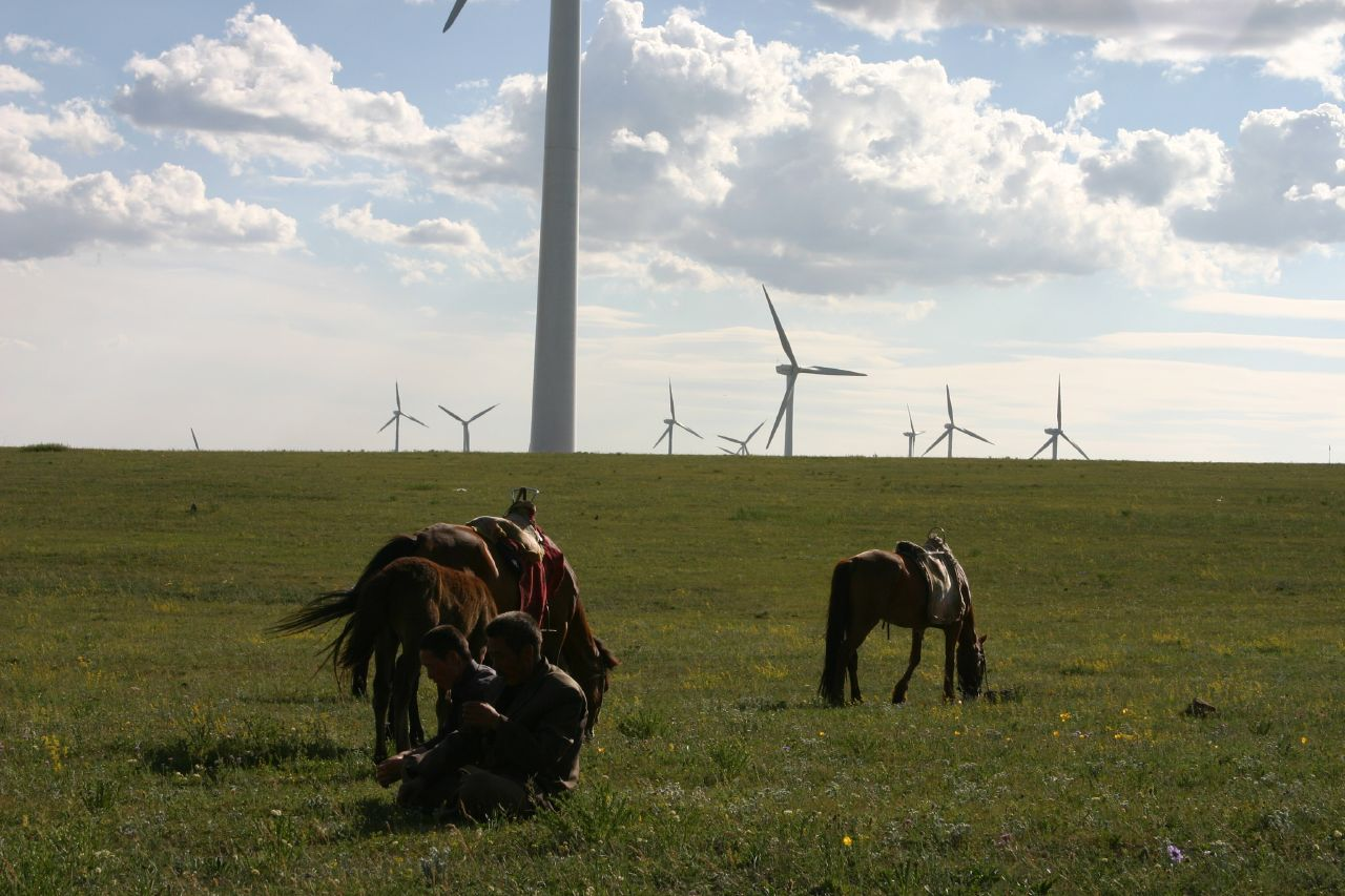 Huitengxile wind farm, Inner Mongolia, People's Republic of China